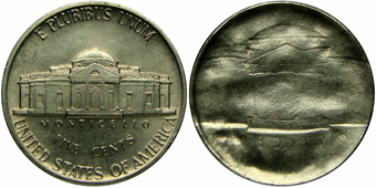 Nickel Brockage Error